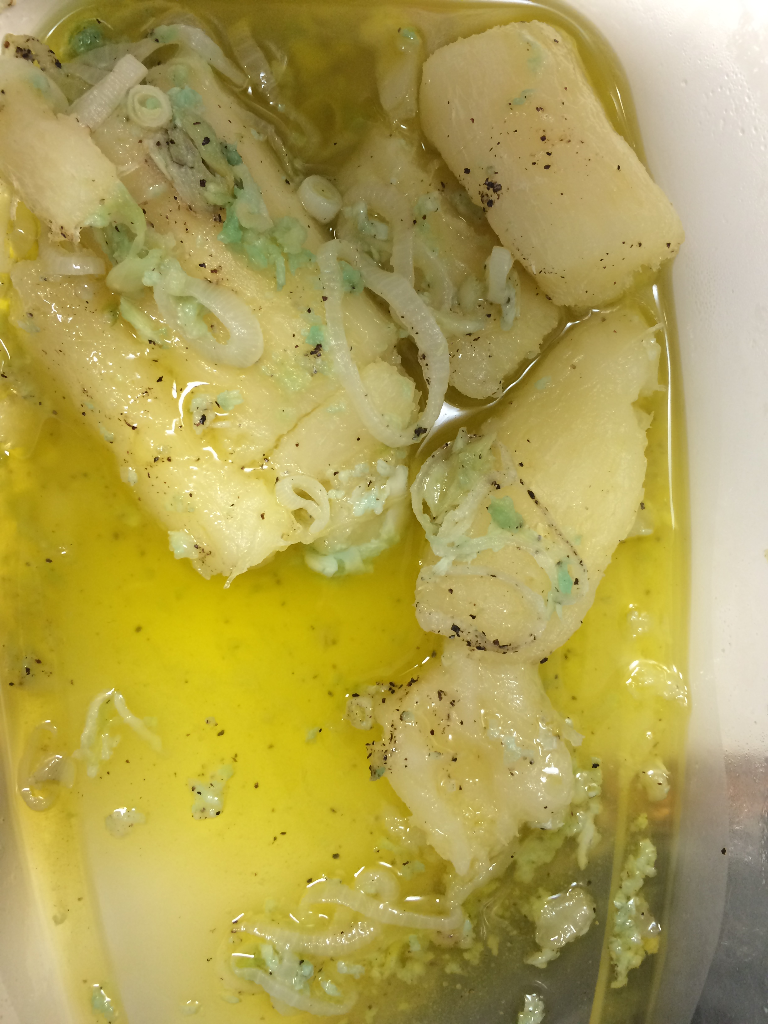 Marinated cassava (yucca)